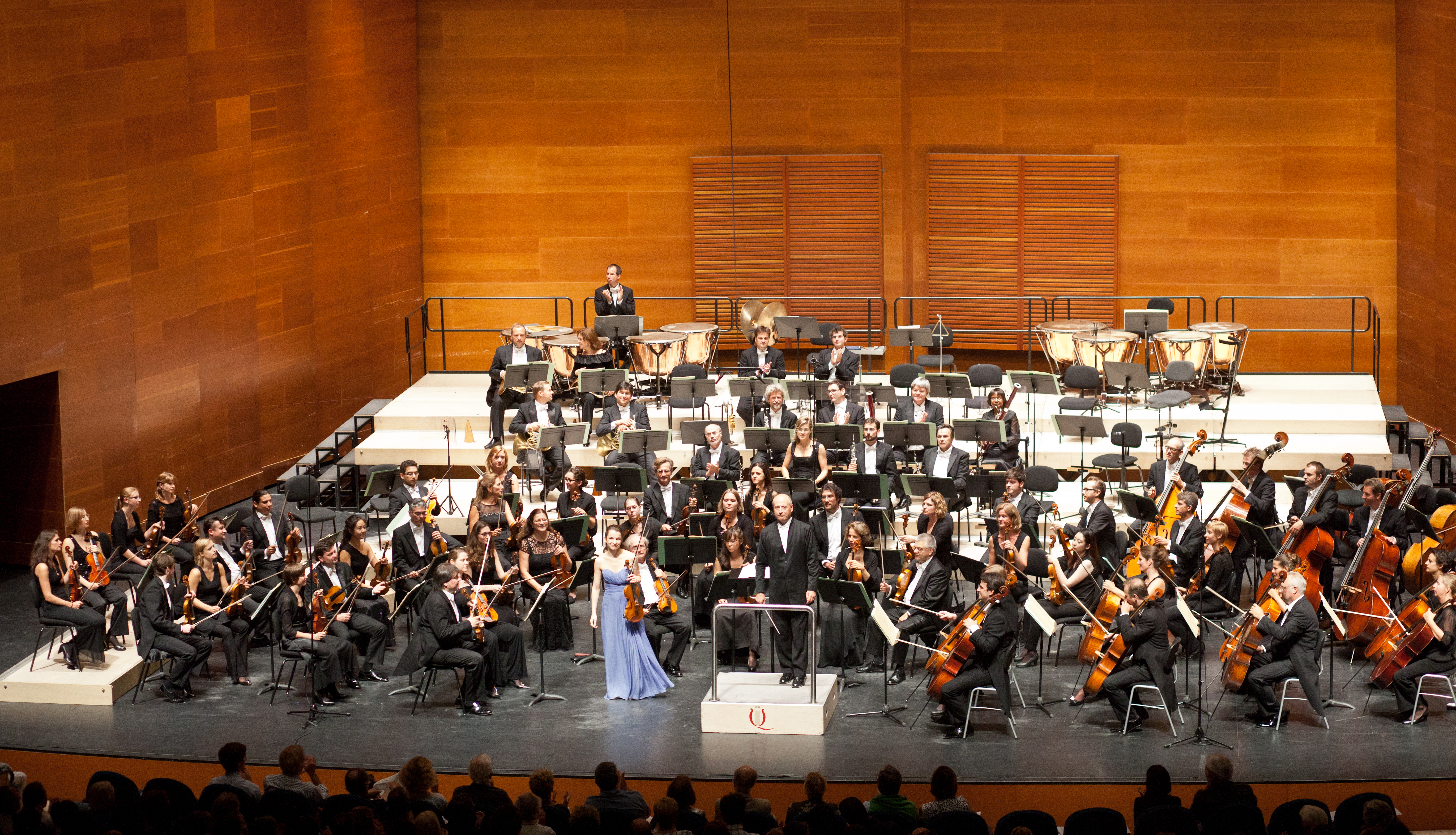 Frankfurt Radio Symphony Orchestra